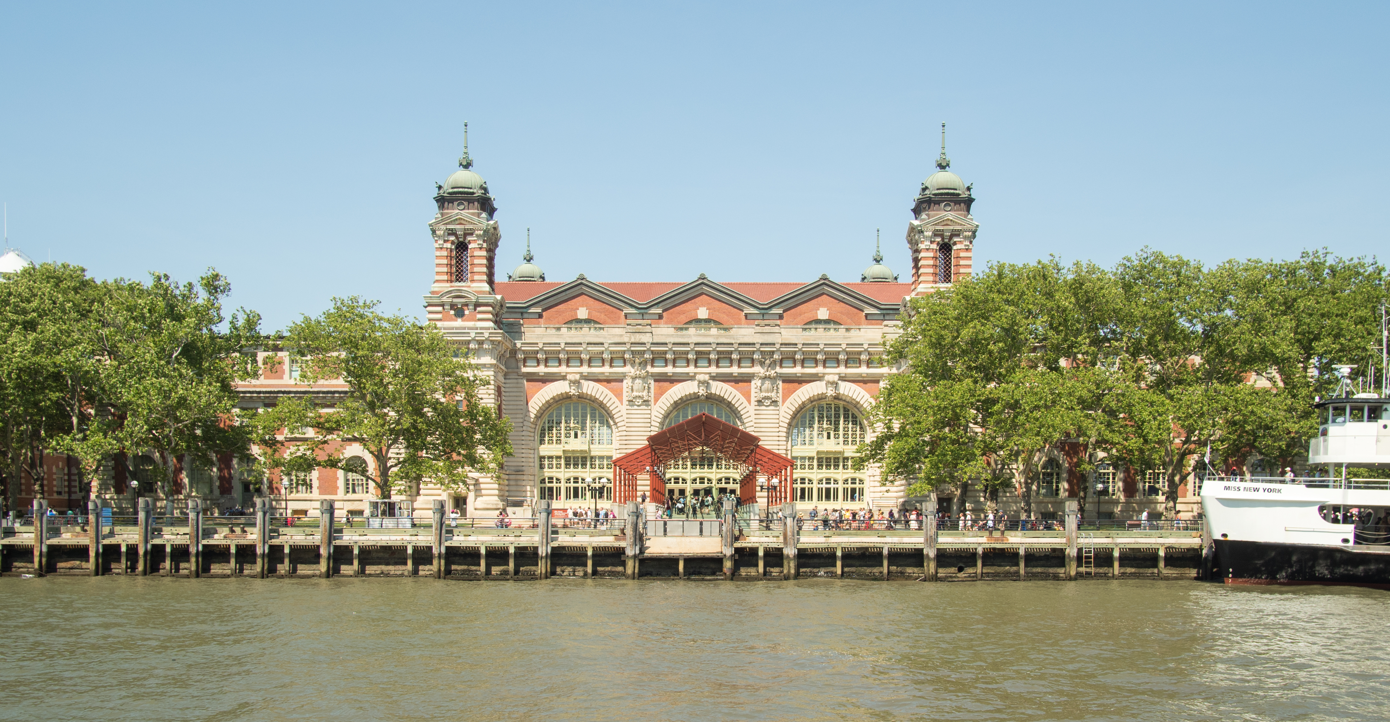 The Ellis Island Immigration Museum, viewed from the Ellis Island Immigrant Hospital.